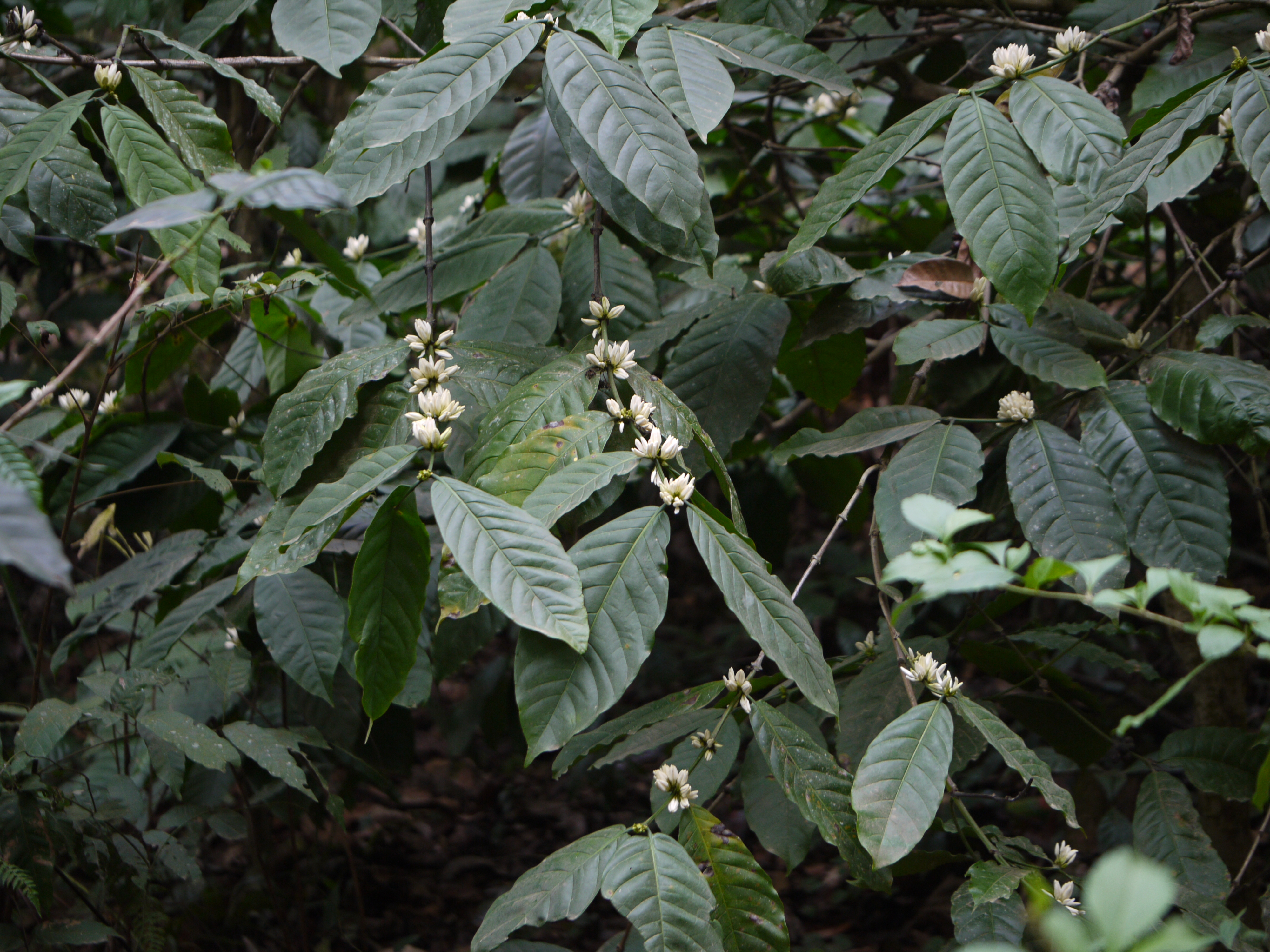 Rubiaceae (madder, bedstraw, or coffee family) » Coffea canephora KOFF-ee-uh -- from Turkish kahve, in turn from Arabic qahwa ¿ ka-NEPH-o-ruh ? -- ¿ from Greek kanephoros (reed basket) ? roh-BUS-tuh -- robust commonly known as: coffee, conillon, robusta coffee • Arabic: بن bun, قہوة qahwat • Assamese: কফি kaphi • Bengali: কফি kaphi • Gujarati: કૉફી kophi • Hindi: काफ़ी kafi, कॉफी kophi • Kannada: ಕಾಫಿ kaaphi • Kashmiri: कह्व kahwa • Konkani: कॉफि kawphi • Malayalam: കാപ്പിച്ചെടി kaappicceti • Manipuri: kophi • Marathi: कवा kava, कॉफि kophi • Mizo: kaw-fi • Nepali: कहुवा kahuwa, काफि kaphi • Persian: قہوه qahwa • Tamil: காபி kapi • Telugu: కాఫీ kaaphii Native of: central and western subsaharan Africa; cultivated elsewhere References: Wikipedia • NPGS / GRIN